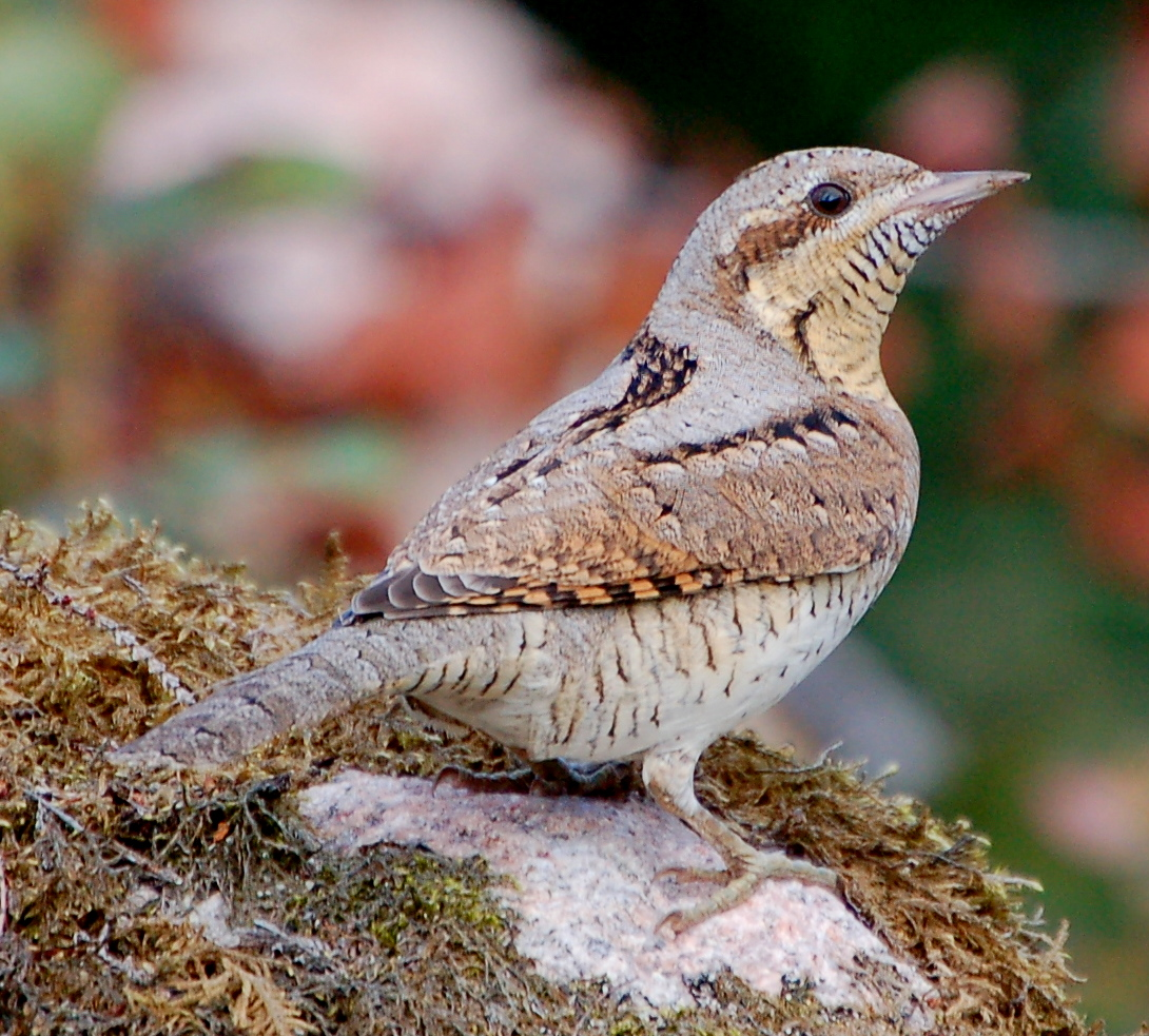 Eurasian Wryneck, Jynx torquilla, at Ramsøy, Norway